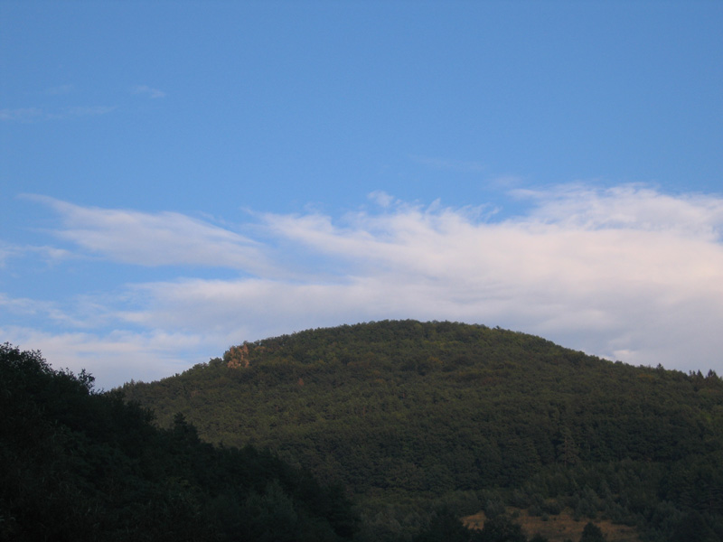 Ďurova Skala hill above the village of Dolna Ves in Central Slovakia